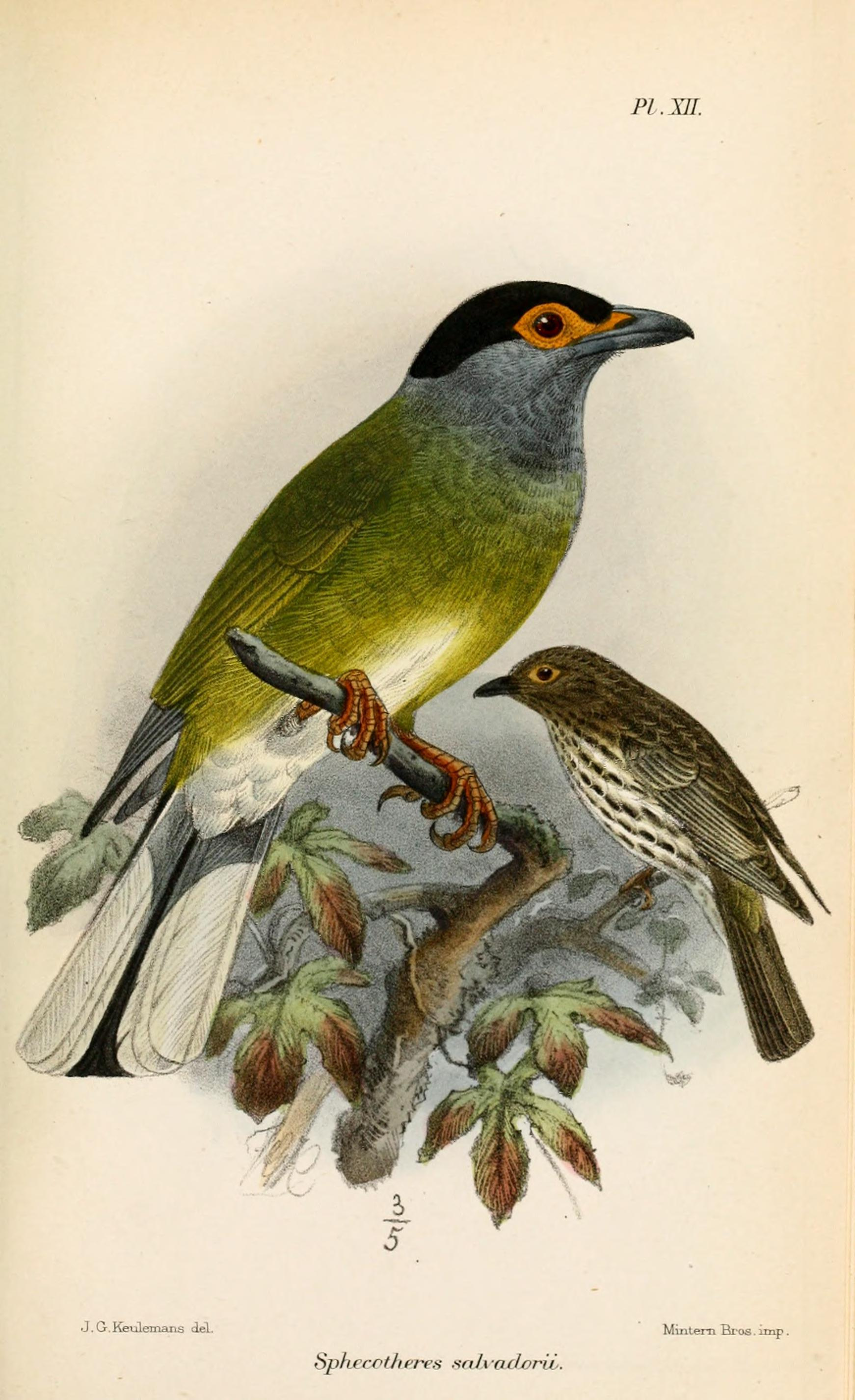 Sphecotheres salvadorii = Sphecotheres vieilloti, Australasian Figbird